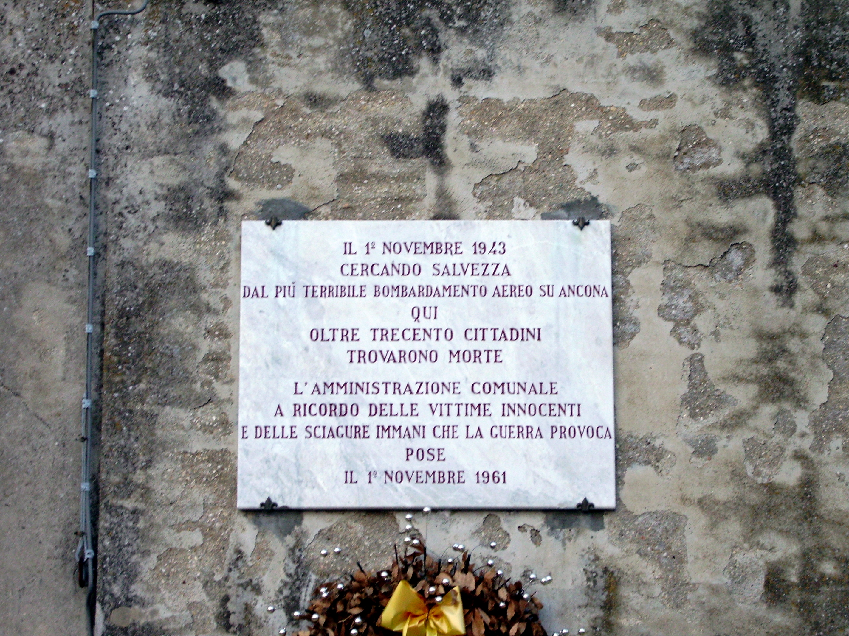 Plaque in memory of the 300+ victims of a 1943 Allied bombing that hit a shelter.